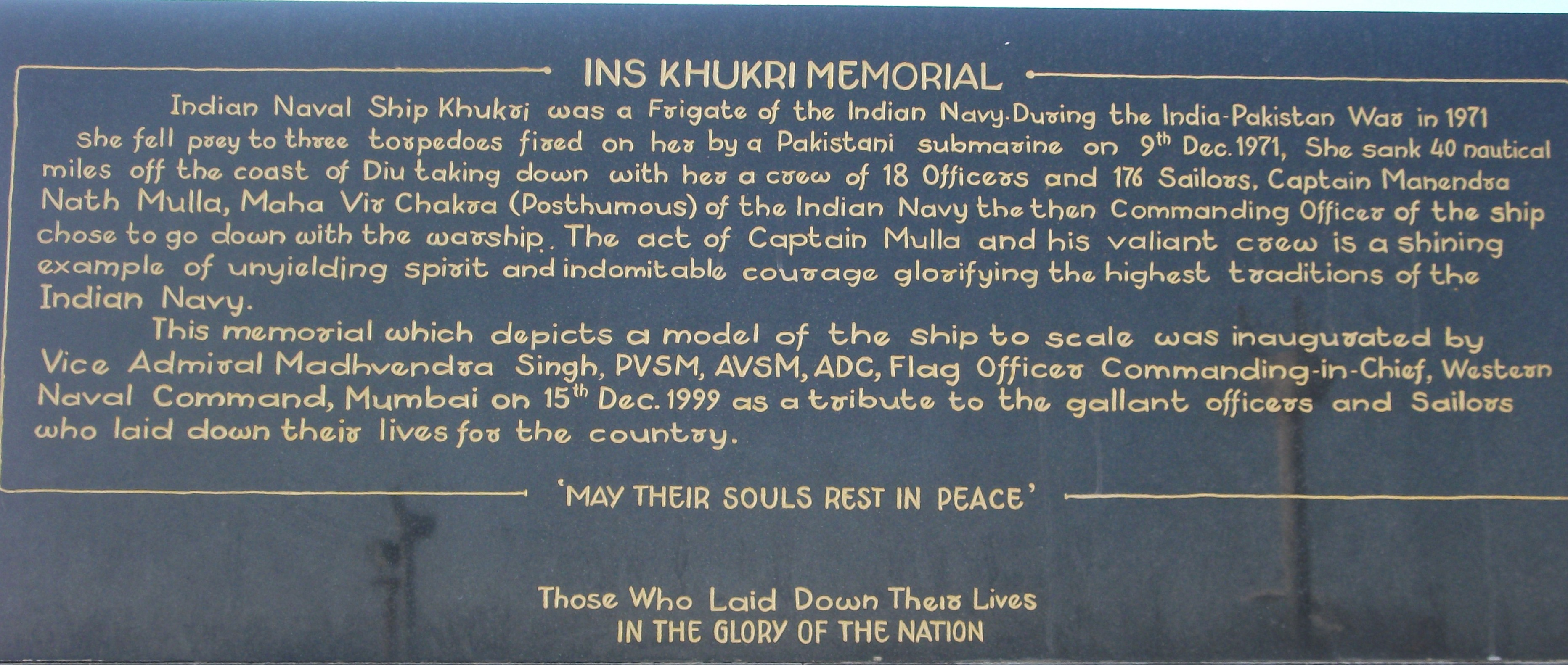 INS Khukri memorial, Diu --- INS KHUKRI MEMORIAL --- Indian Naval Ship Khukri coas a Frigate of the Indian Navy During the India-Pakistan Wan in 1971 She fell proy to three torpedoes fised on bea by q Pakistani submarine. on 9th Dec 1971, She sank 40 nouticol miles off the. coast of Diu taking down ooith he» a cuew of 18 Officers and 176 Sailors. Captain Manedra Nath Mulla, Maha Vir Cbakaa (Posthumous) the Indian Navy thathan Commanding Officer of the ship chose to go down cuitb the warship. The. act of Captain Mulla and his valiant ceeoo is a shining example of unyielding Spirit and indomitable courage glorifying the highest traditions of the Indian Navy. This memorial cohich depicts a model of the Ship to scale coas inaugurated by Vice Admiral Madhvendya Singh. PVSM, AVSM, ADC, Flctg Officer Commanding in-Chief, Western Naval Command, Mqmbai on 15th Dec. 1999 as a tribute to the gallant officers and Sailors ouho laid down their lives for the country. -- "MAY THEIR SOULS REST IN PEACE" -- Those Who Laid Dooon Their Lives IN THE GLORY OF THE NATION